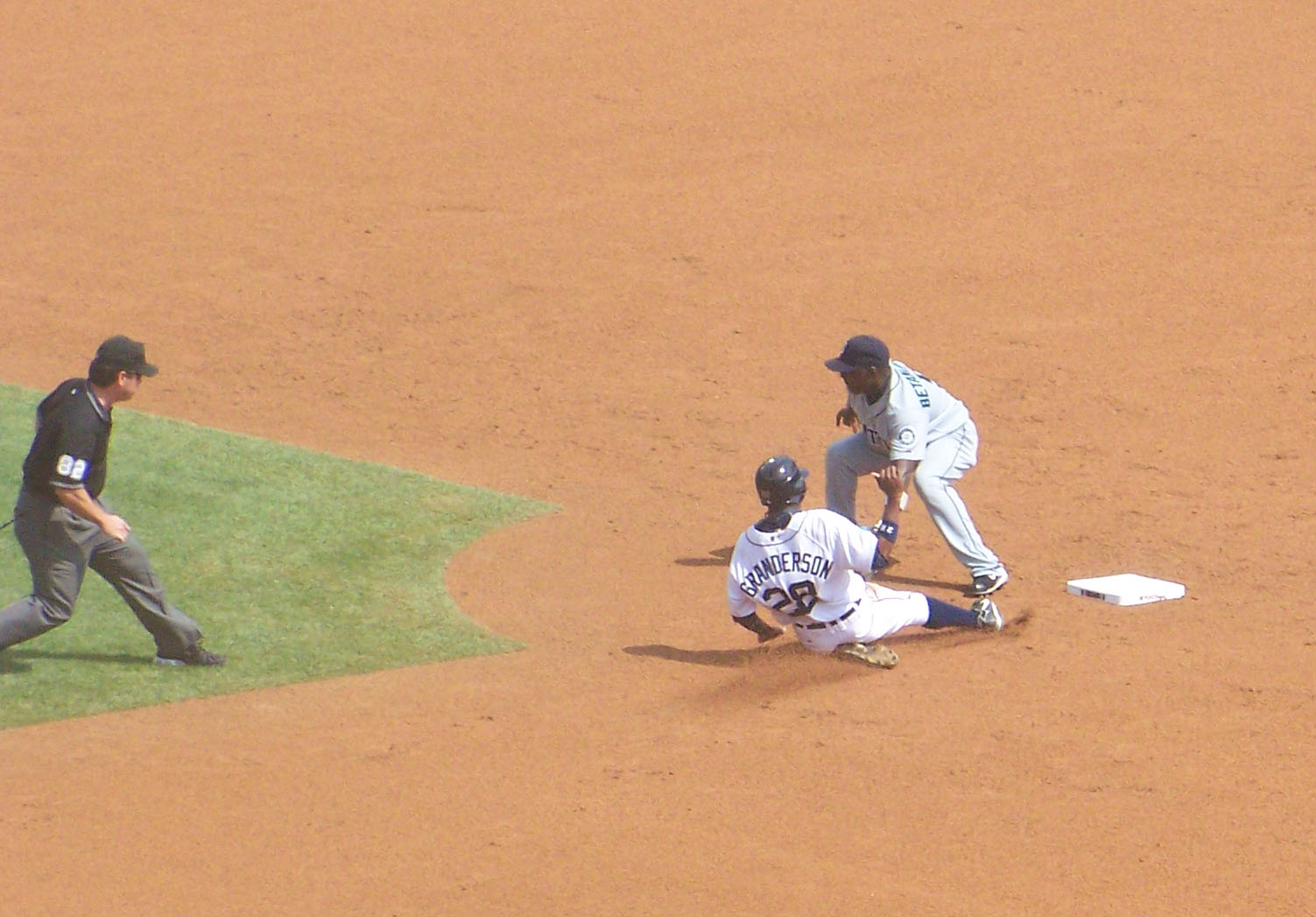 Curtis Granderson slides into second base for his 20th stolen base of the 2007 season, making him the third player in mlb history to have 20 doubles, triples, home runs and 20 stolen bases in single season.